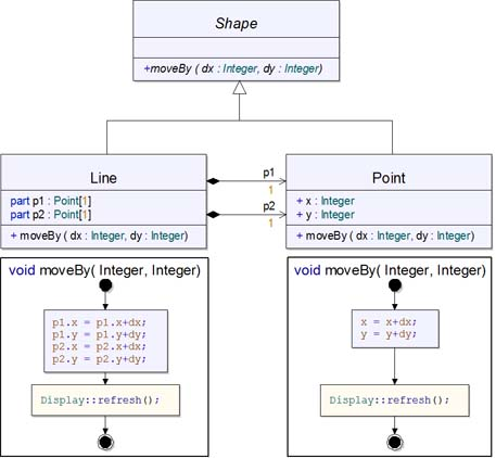 Figure Editor Example in UML